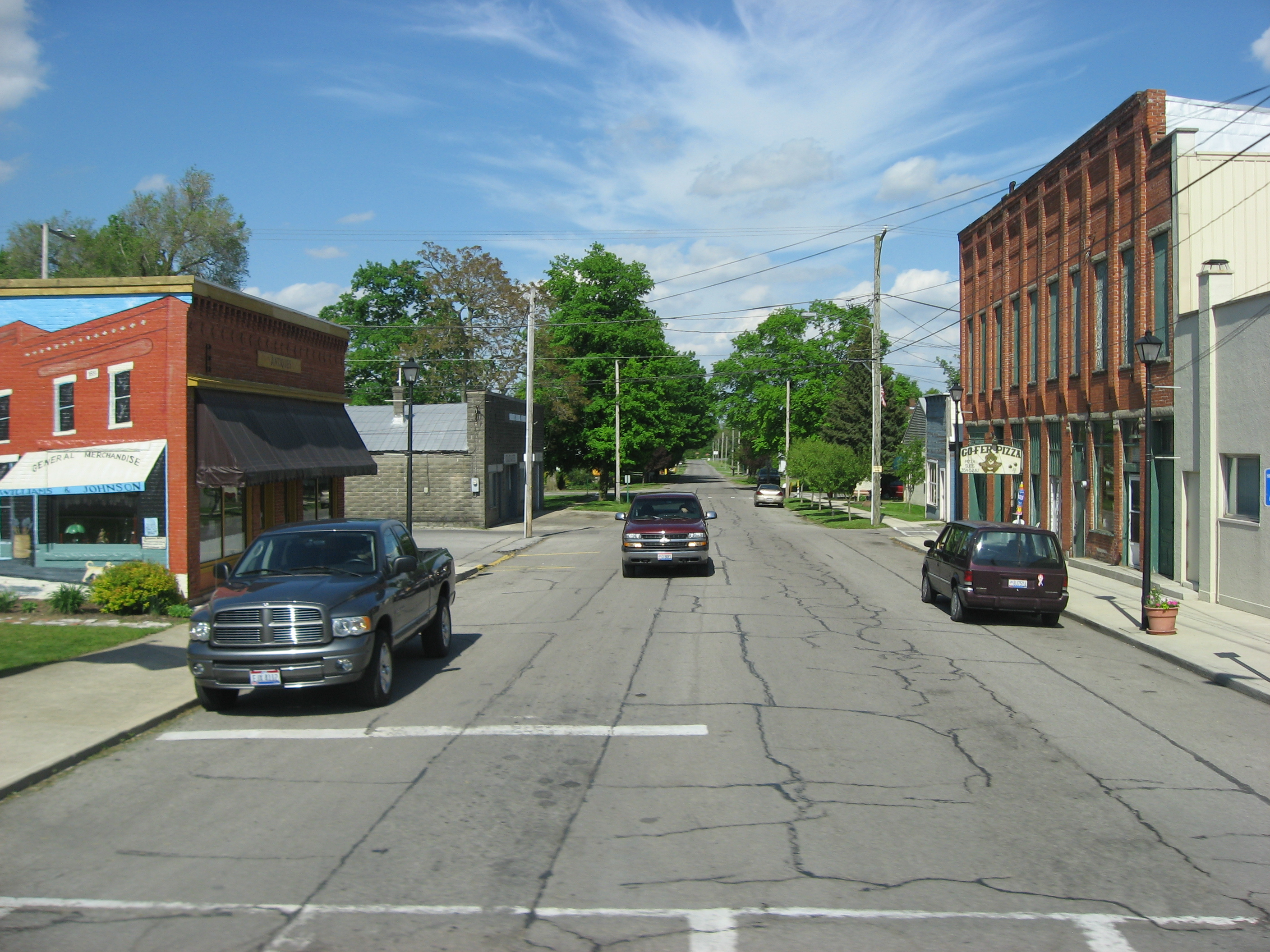 Downtown Mount Victory, Ohio, United States. Picture taken facing eastward along Taylor Street from a northbound Greyhound bus travelling along Main Street (State Route 31).